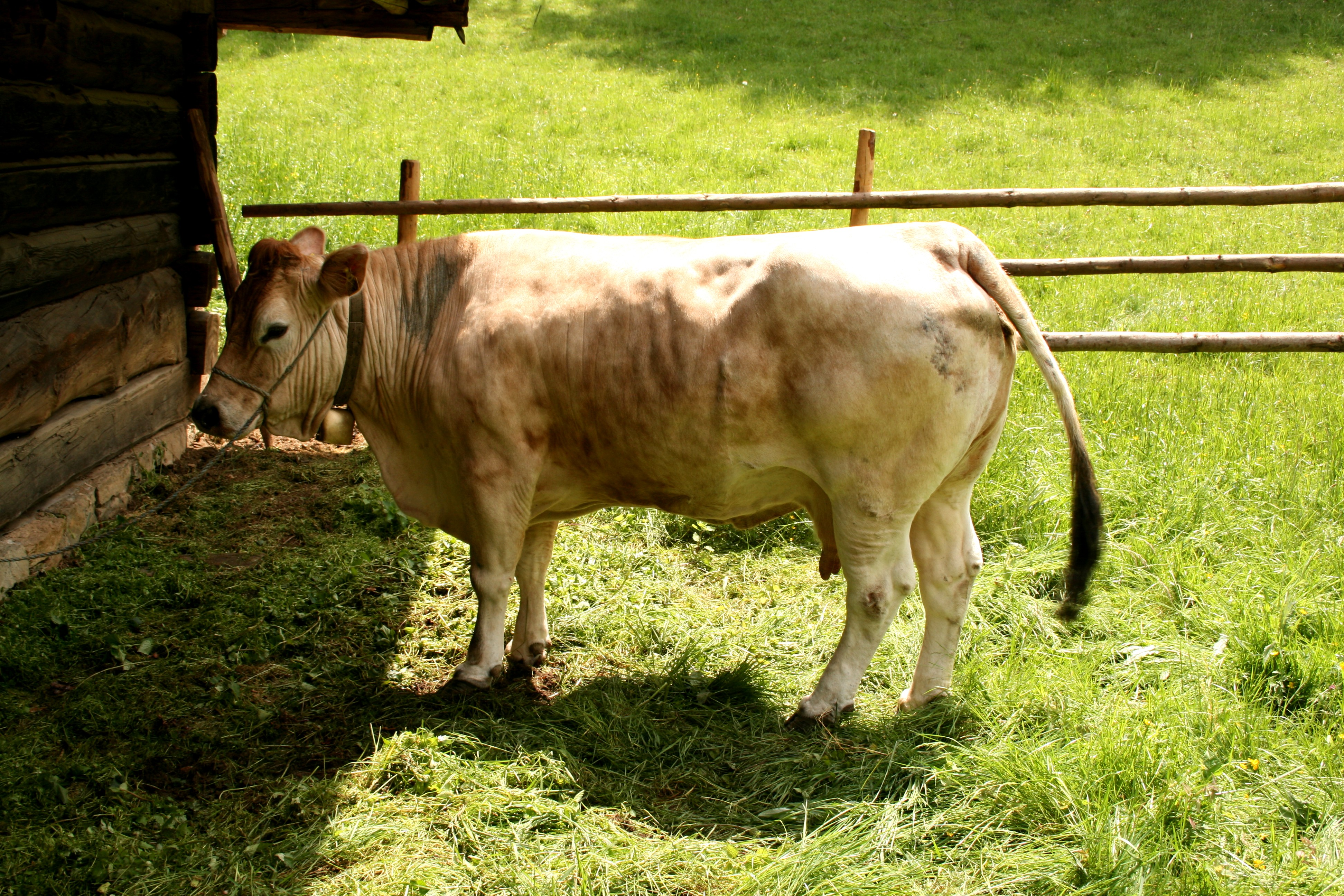 "Murbodner Rind" in Styria, Austria, Europe